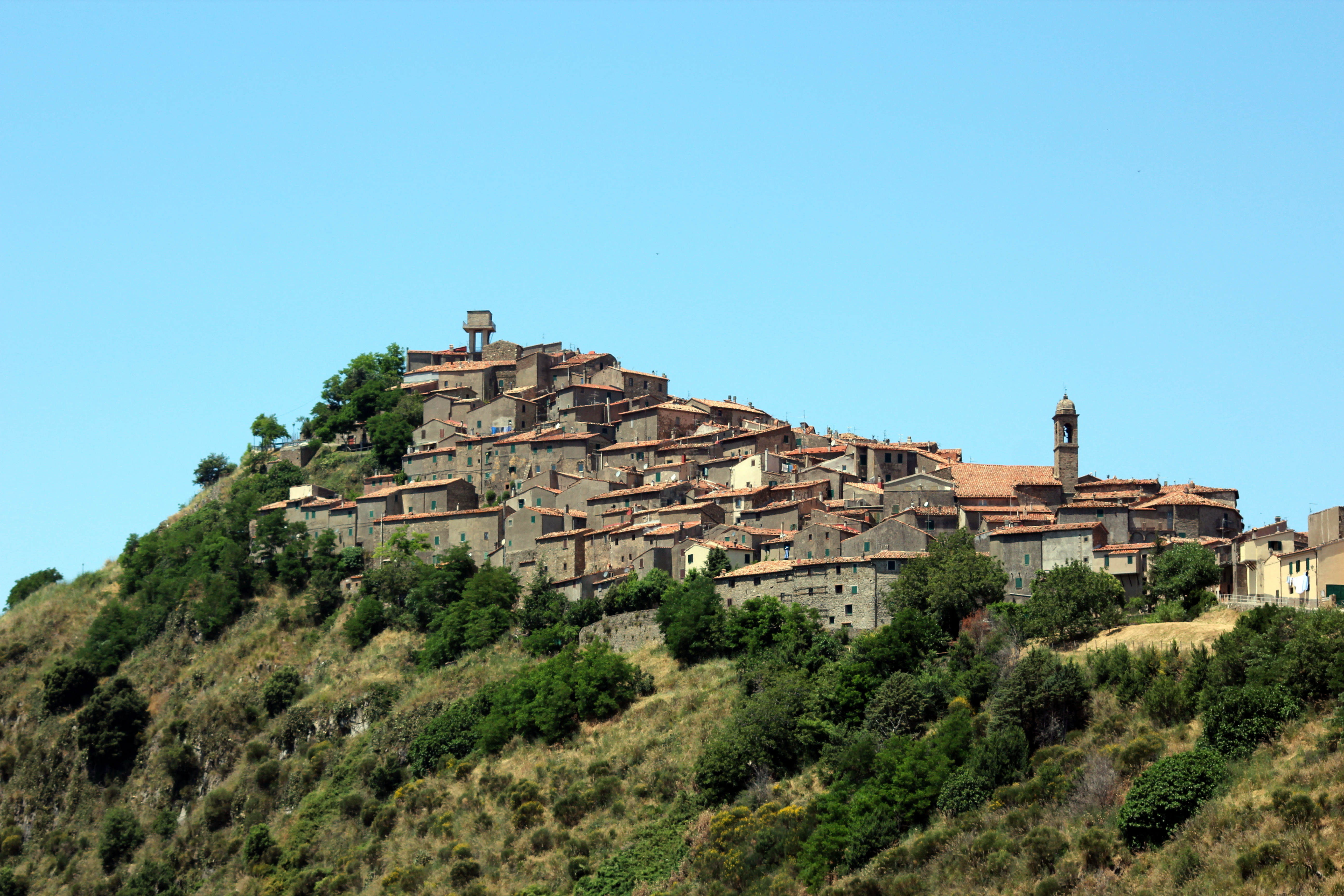 Panorama of Montelaterone, hamlet of Arcidosso, Province of Grosseto, Tuscany, Italy